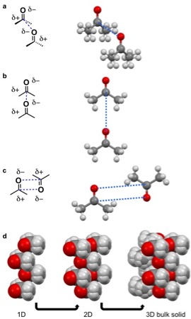 This image shows the intermolecular interactions and packing in three dimensions of acetone as a solid.